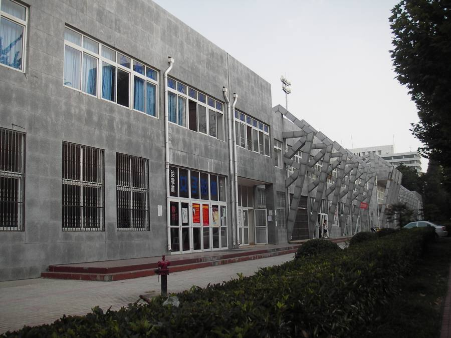 Sport comples, Hefei University of Technology, Hefei, mainland China.